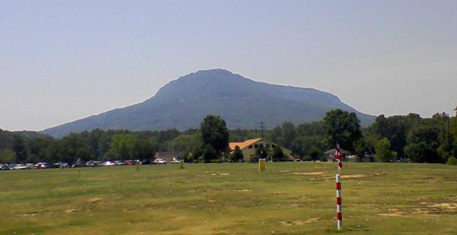 Lookout Mountain’s northeastern tip, as seen from Moccasin Bend, Chattanooga, Tennessee.